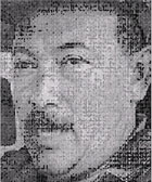 NOE SUAREZ ROJAS, also known as "German Briceno Suarez," also known as "Grannobles"